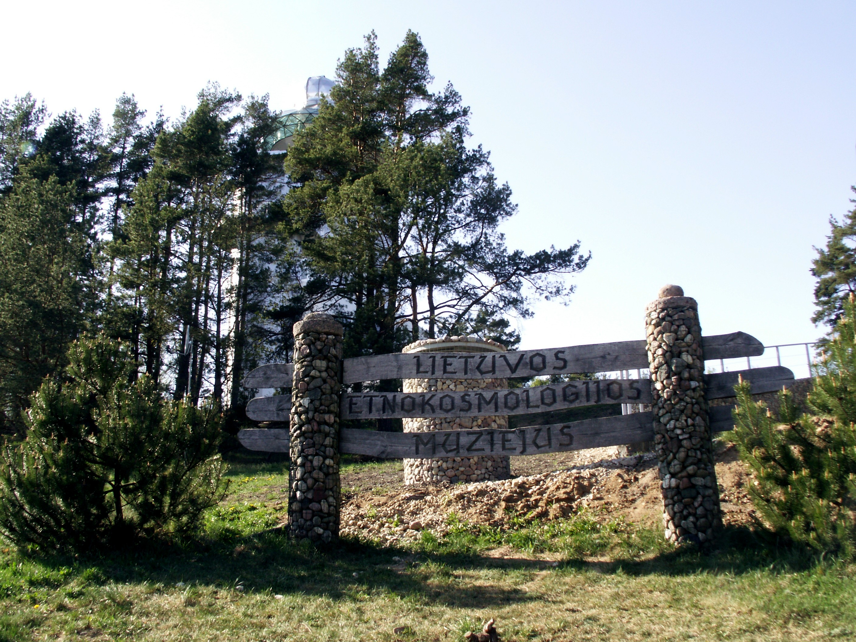 Museum of ethnocosmology, Kulionys, Molėtai district, Lithuania